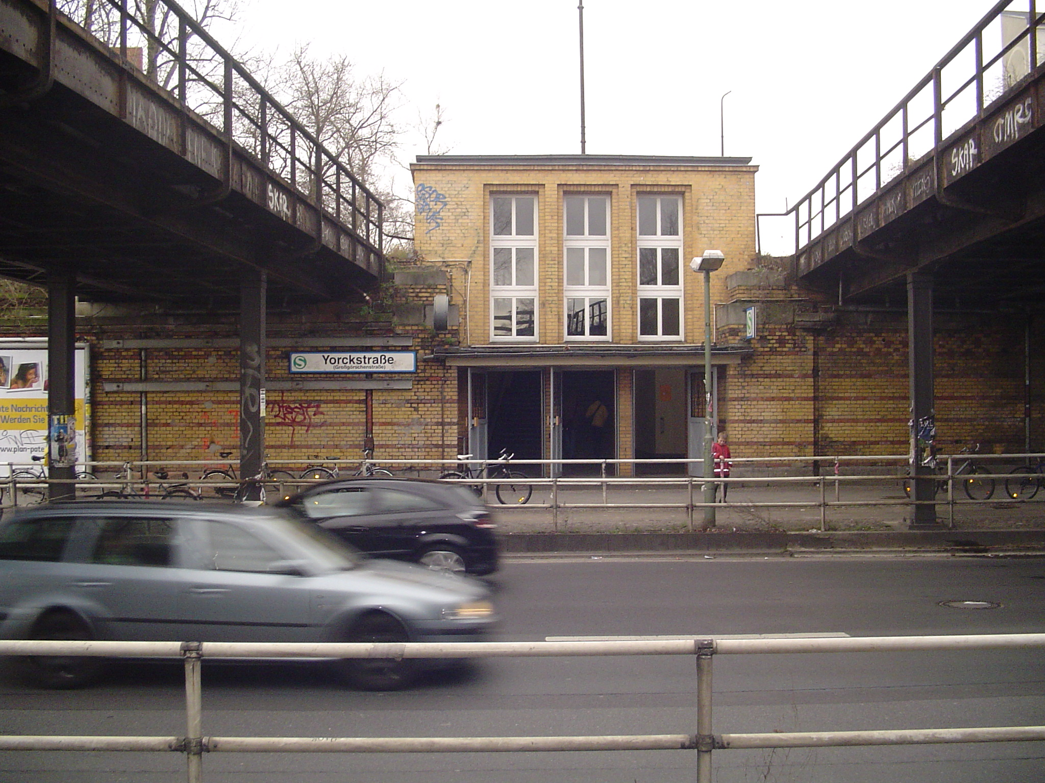 S-Bahn station Yorckstraße/Großgörschenstraße, entrance, view from North